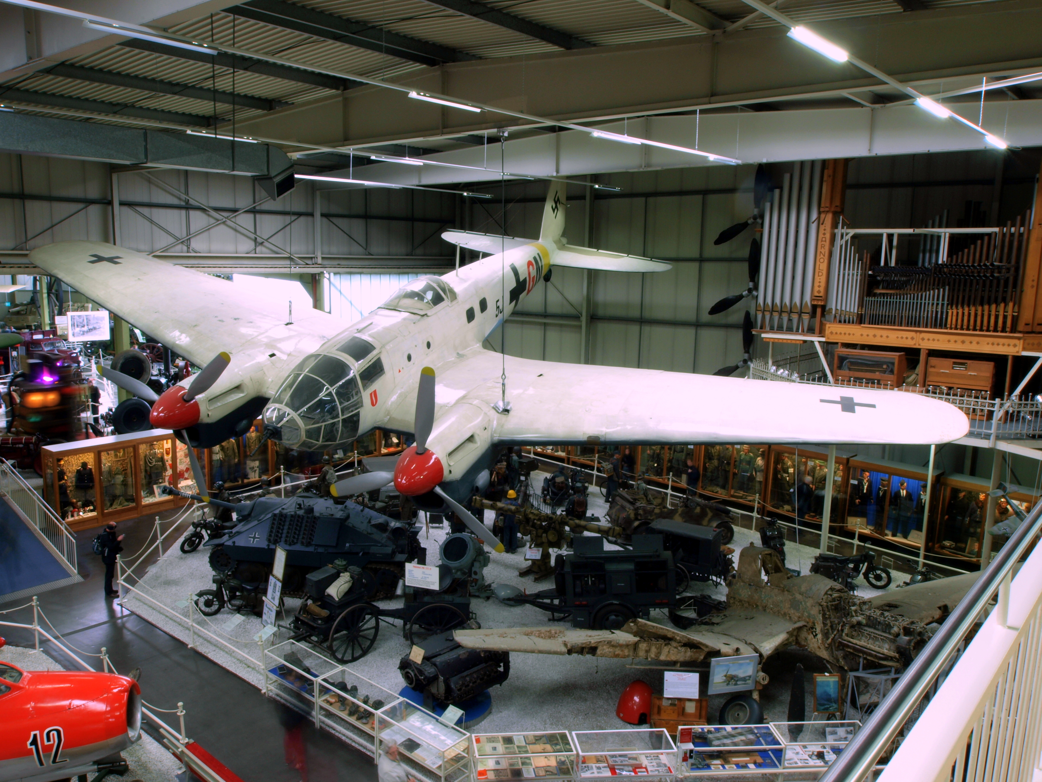 Photographed at the Auto & Technic museum Sinsheim.